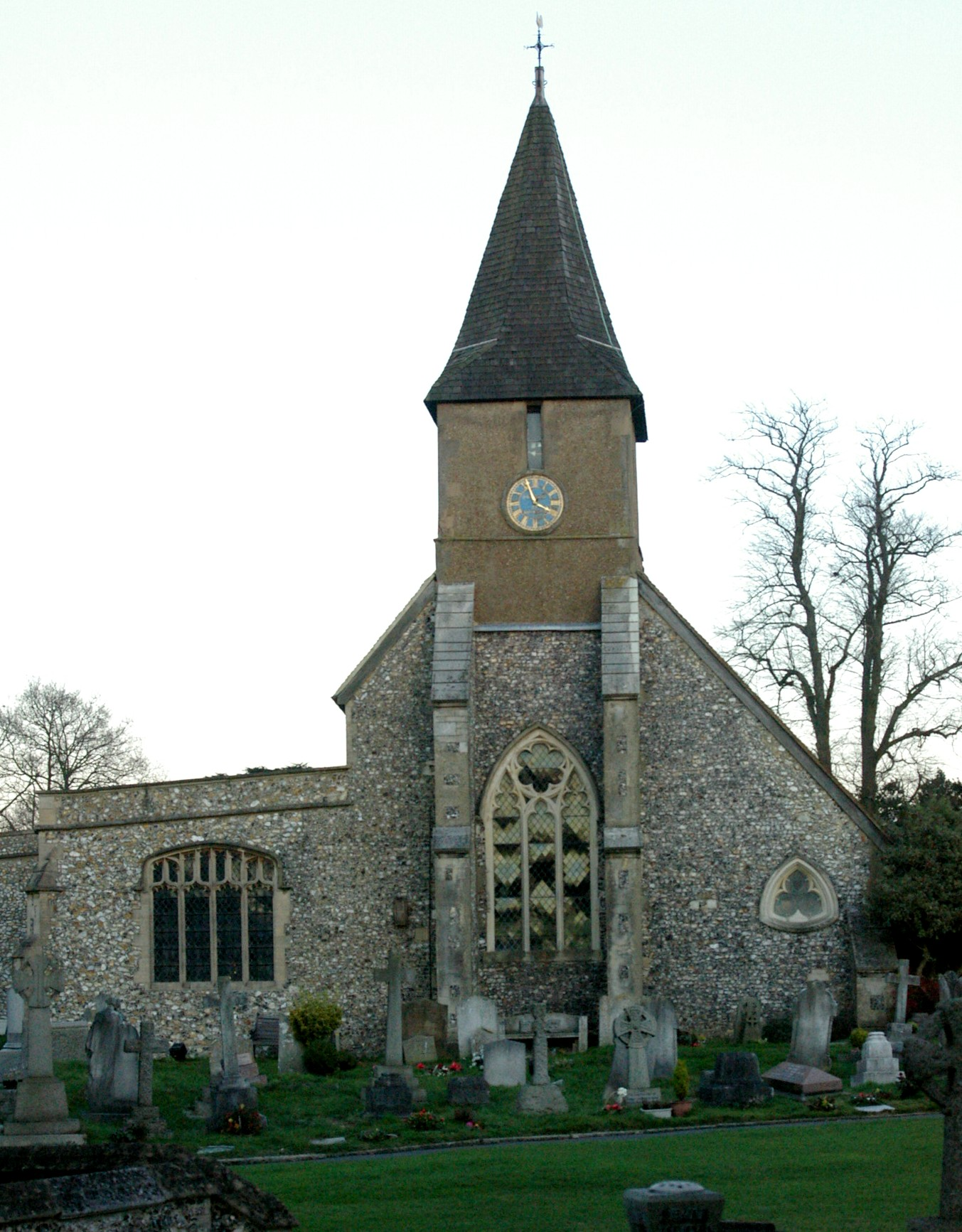 All Saints parish church, Sanderstead, London (formerly Surrey), seen from the southwest